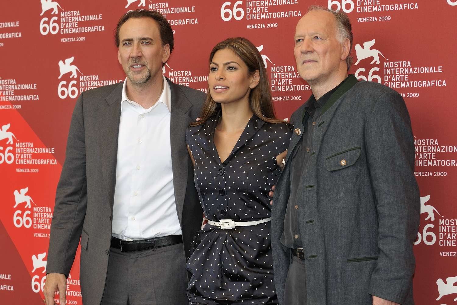 Nicolas cage, Eva Mendes and Werner Herzog at the 66th Festival of Venice for the premiere of the film Bad Lieutenant - Port of Call New Orleans